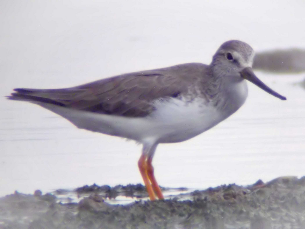 Terek Sandpiper (Xenus cinereus)